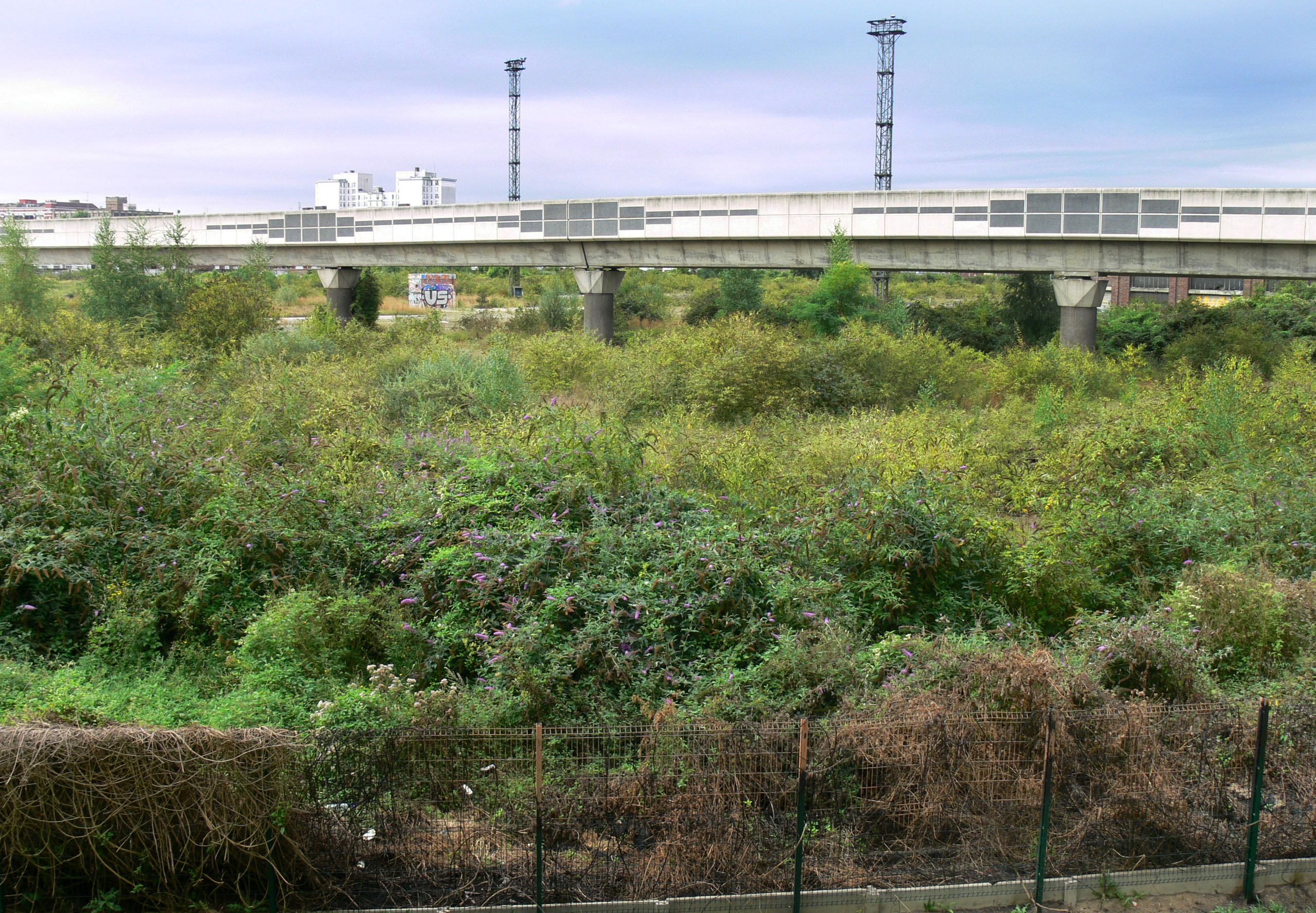 "Saint-Sauveur" (brownfield, wich is an old railway station market) in Lille, in the Pas-de-Calais (in 2009), being the natural recolonization local native flora (birches, willows ..) and introduced (Buddleia). This site is connected to the outside of the city by the old rail corridor that goes under the road (hence the picture is taken). this corridor can play an important role biological Corridor under the frame green at Lille.